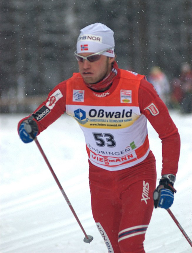 Martin Johnsrud Sundby at the Tour de Ski 2010 in Oberhof